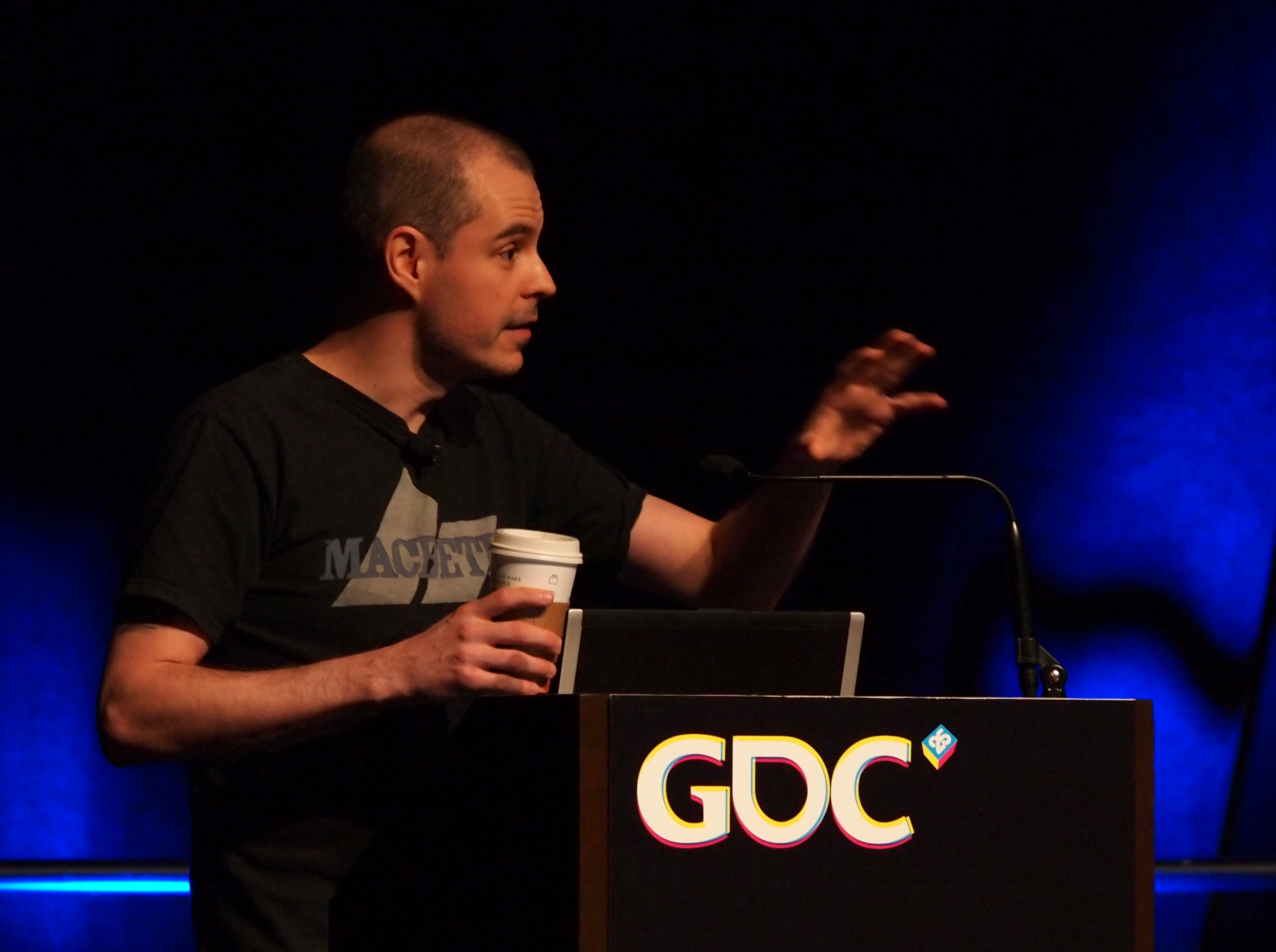 Clint Hocking delivering a keynote at GDC 2011.